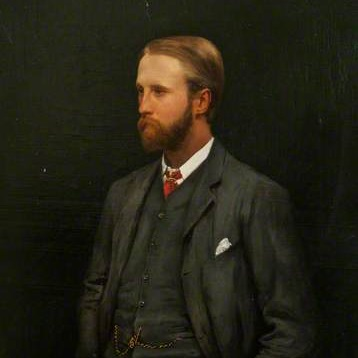 Depicted person: Aurelian Ridsdale – British politician